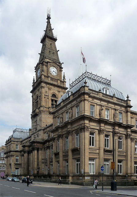 Grade II* listed Municipal Buildings, Dale Street, Liverpool